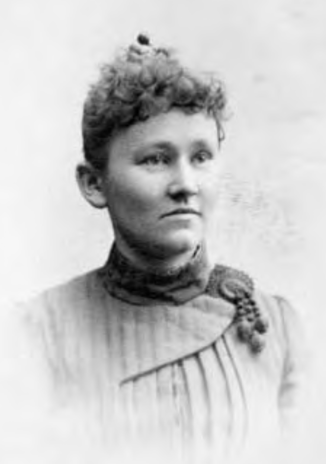 Finnish teacher and activist in women's rights and temperance movements